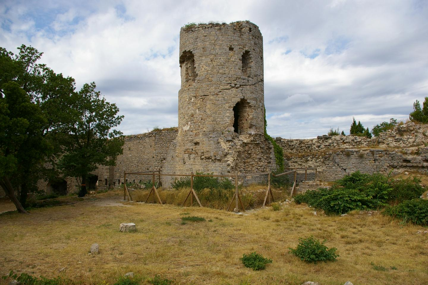 Chateau de Clermont-l'Hérault, the Tour Guilhem